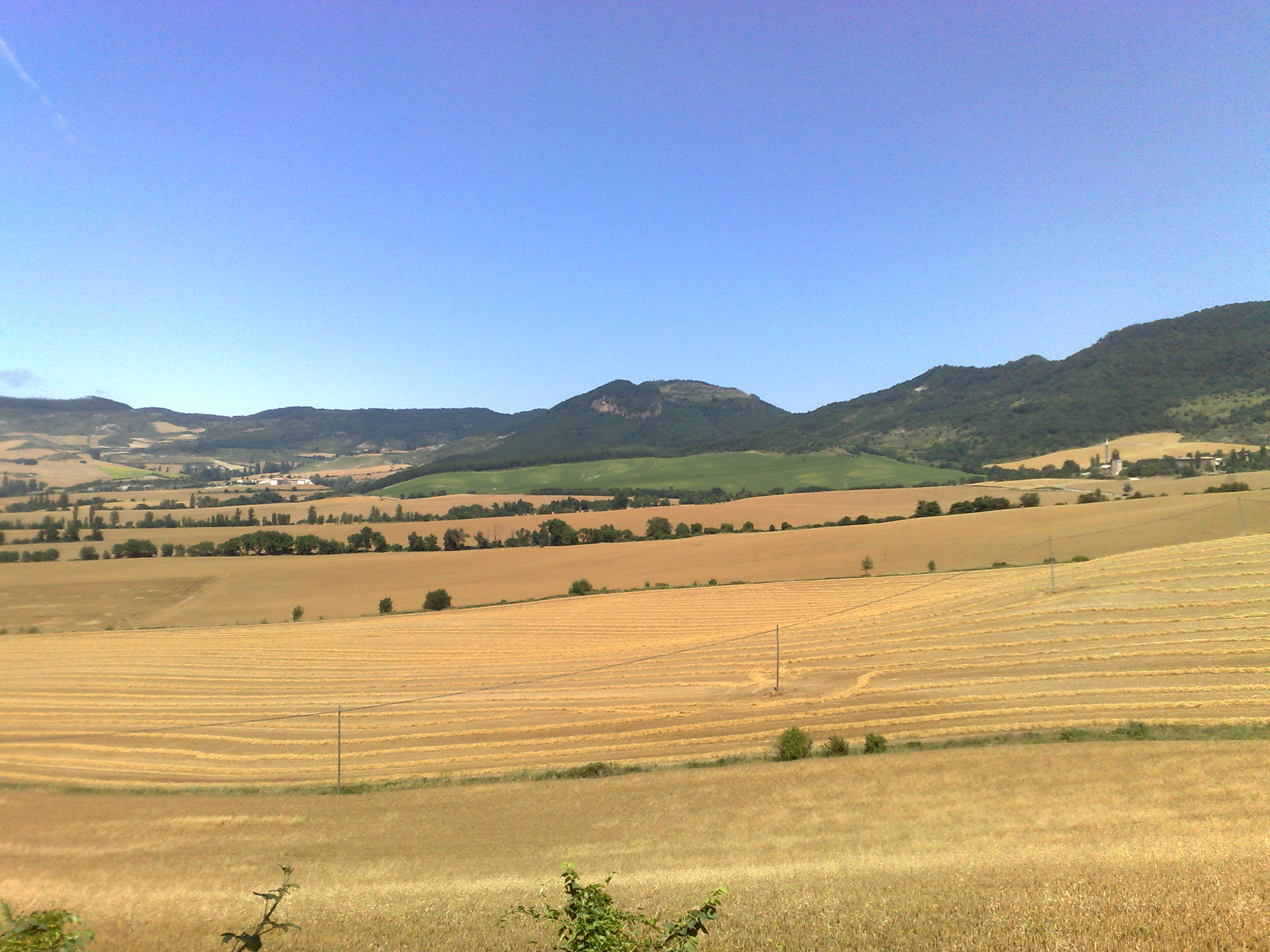 Eastern Aranguren valley: from right to left Gongora, mount Irulegi, Ilundain. Navarre, Basque Country.